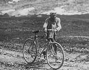 Octave Lapize, Tour de France 1910